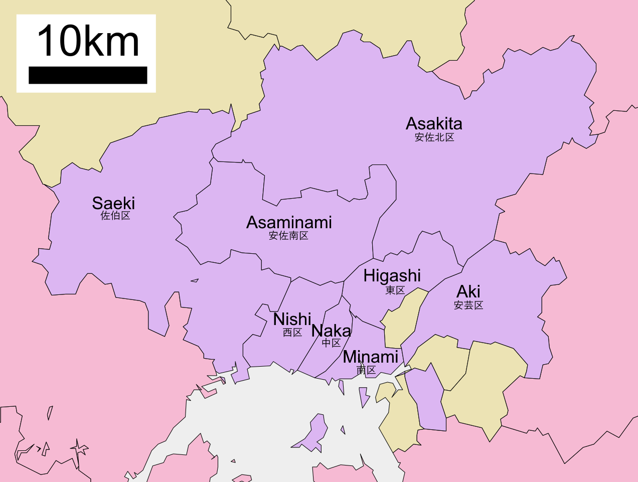 Map showing the eight wards (ku) of Hiroshima.